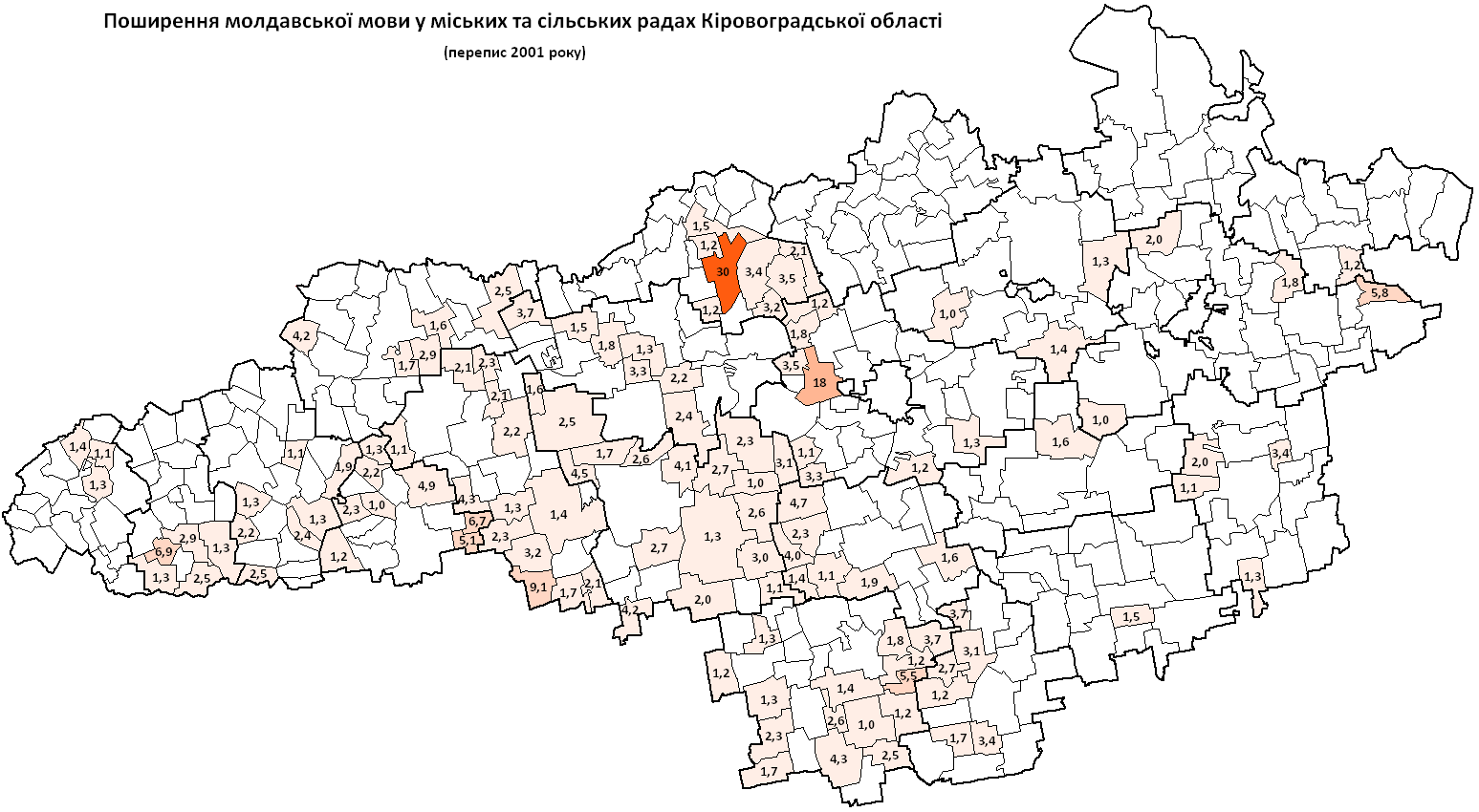 Percentage of moldovan native speakers in Kirovohrad oblast according to 2001 census